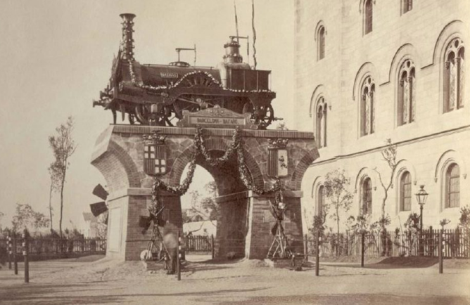 Monumento a La Mataró en la plaza de la Universidad de Barcelona en 1878.